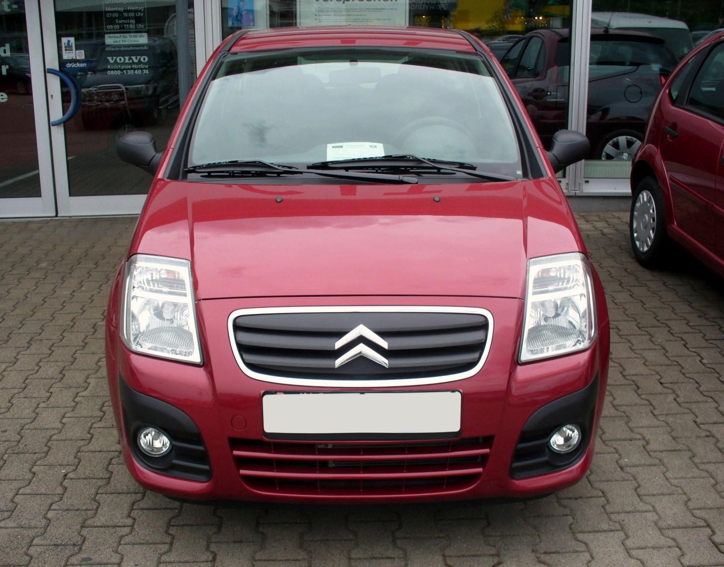 Citroen C2 Facelift